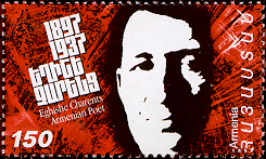 Stamp of Armenia